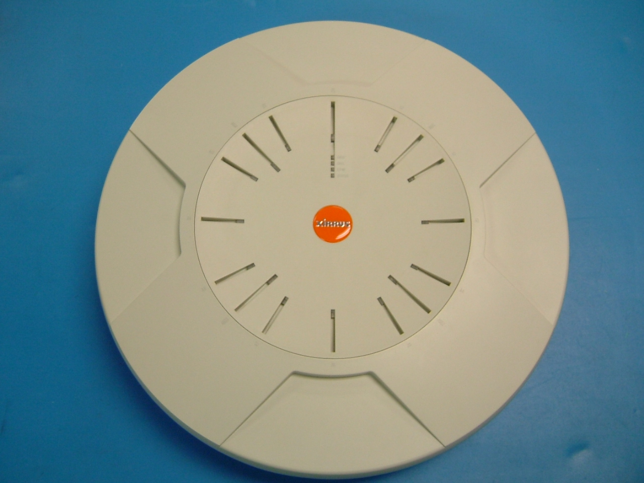 802.11abg Wi-Fi Array